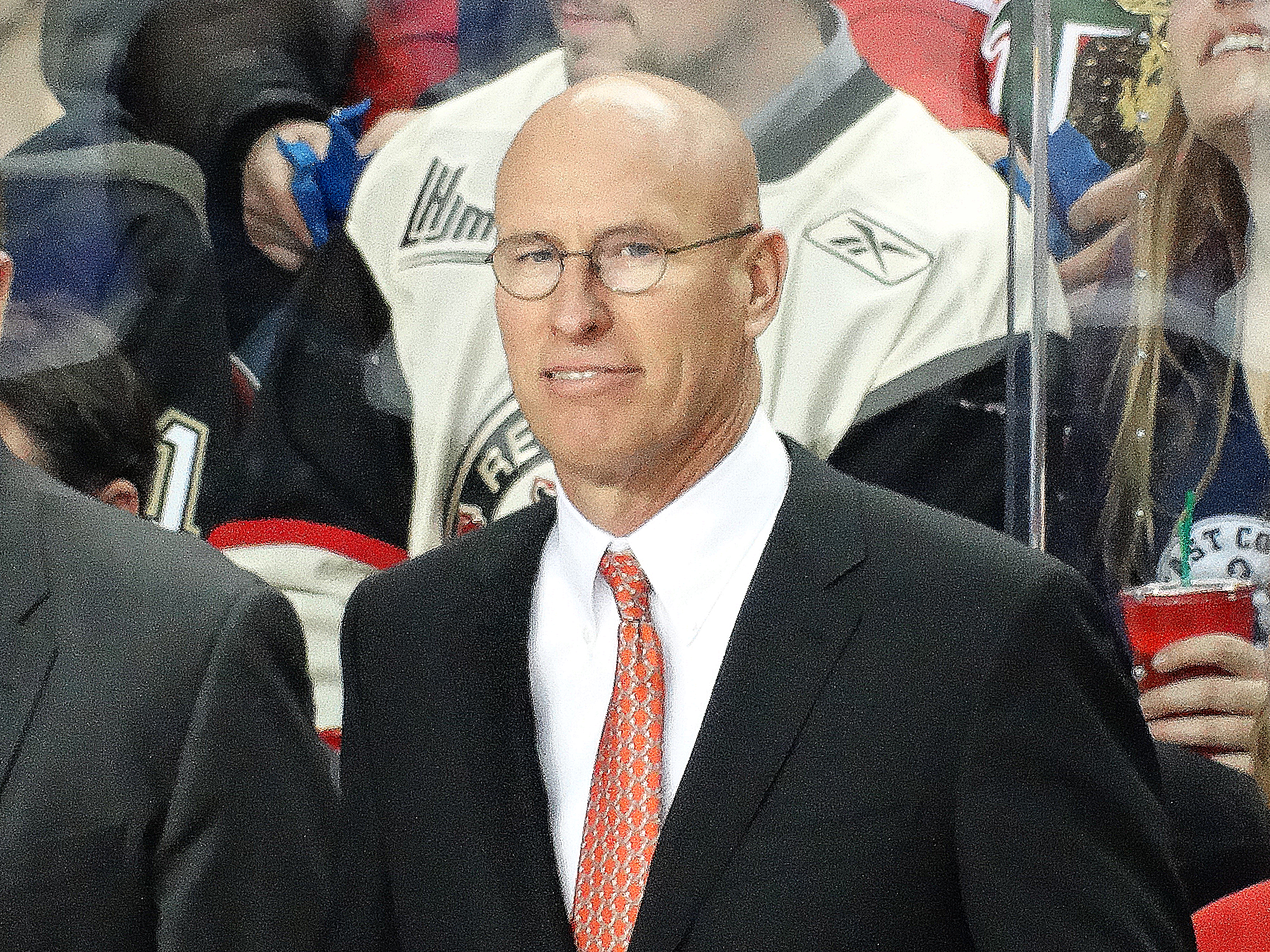 Jim Peplinski, former Canadian ice hockey forward at the CHL / NHL Top Prospects Game